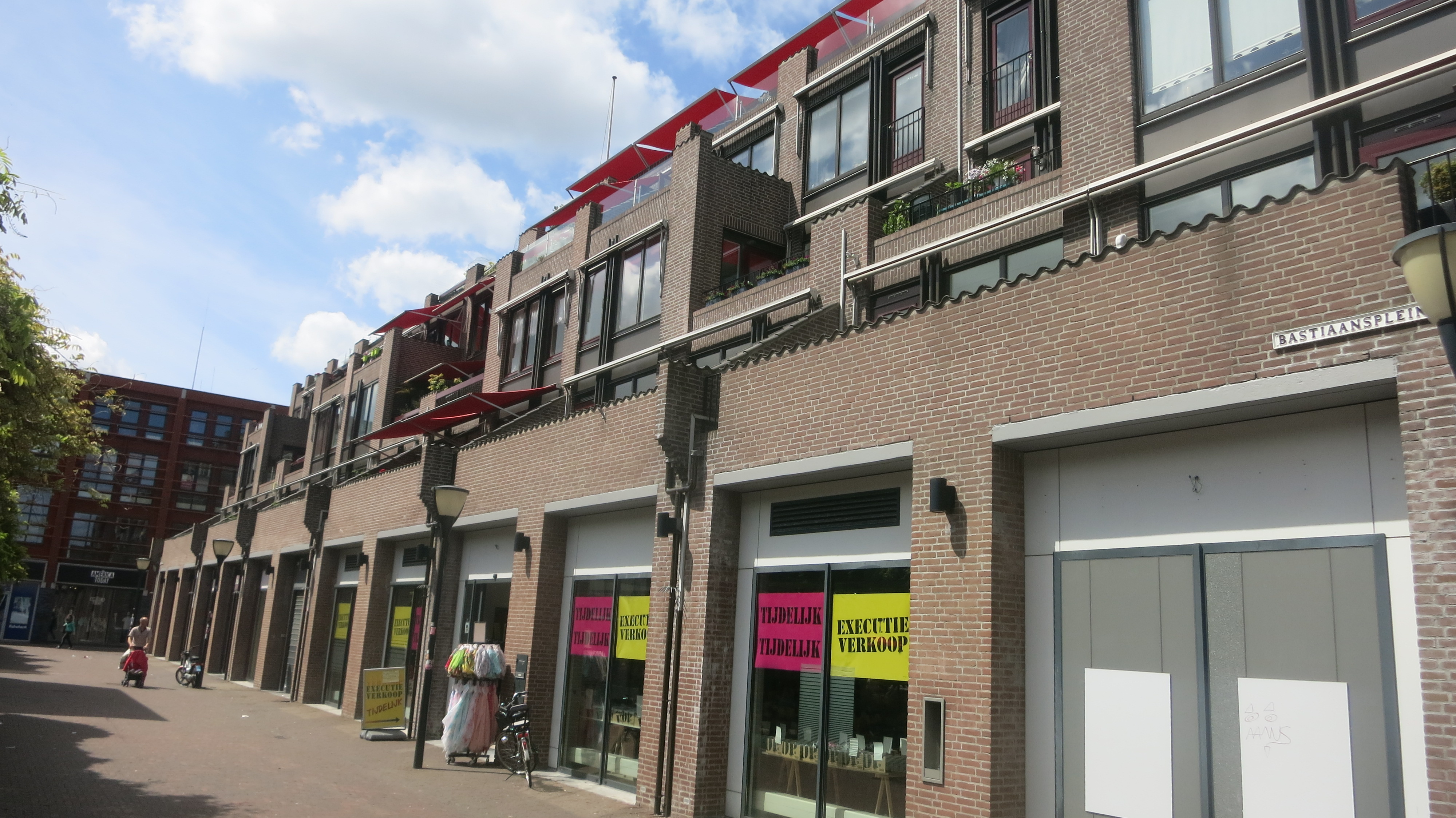 The 1976 housing and shopping complex Koreneef In De Veste (Delft) by Dutch architect Lex Haak (2015)